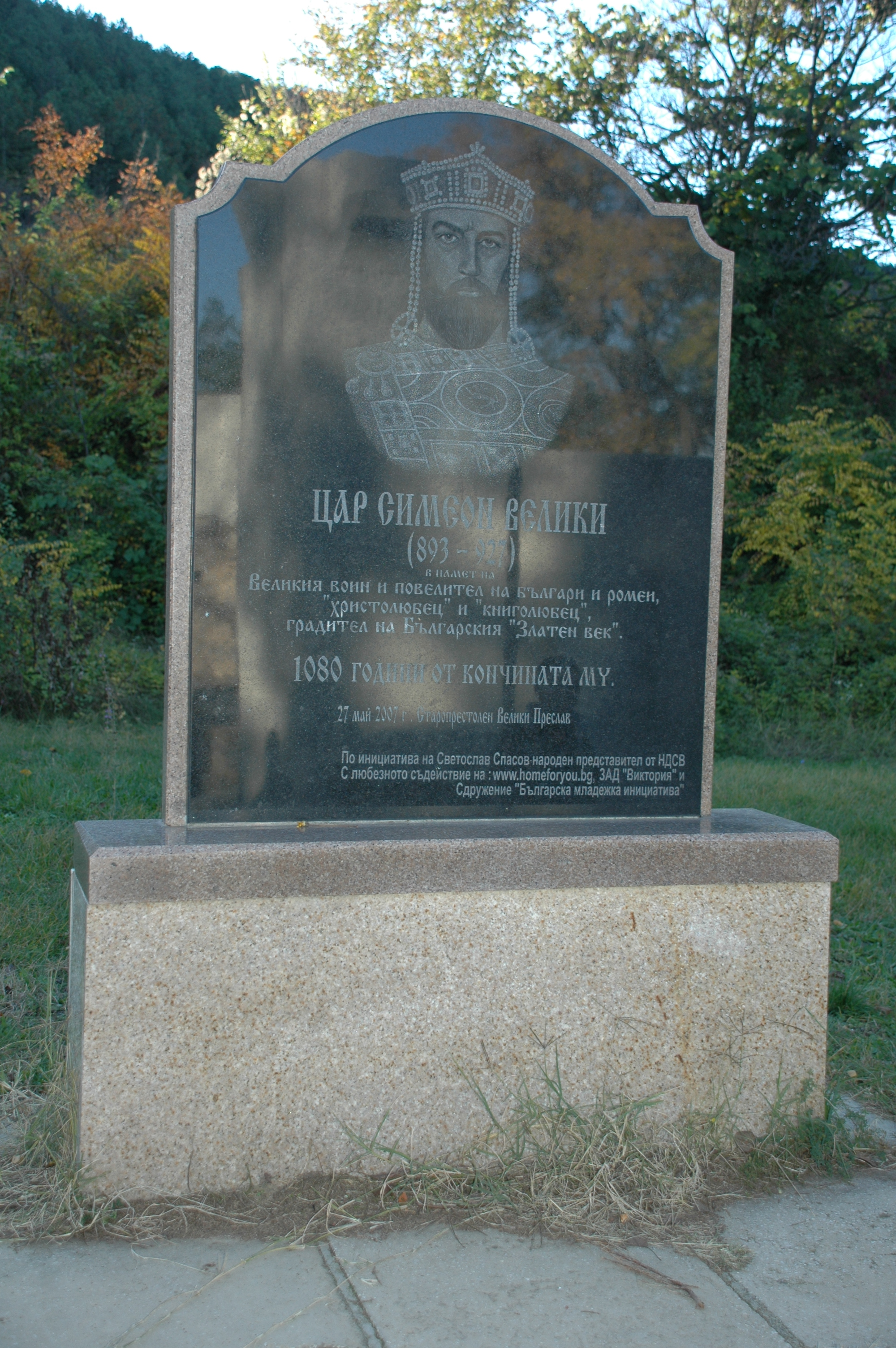 Monument to the Tsar Simeon Veliki near the museum "Veliki Preslav".